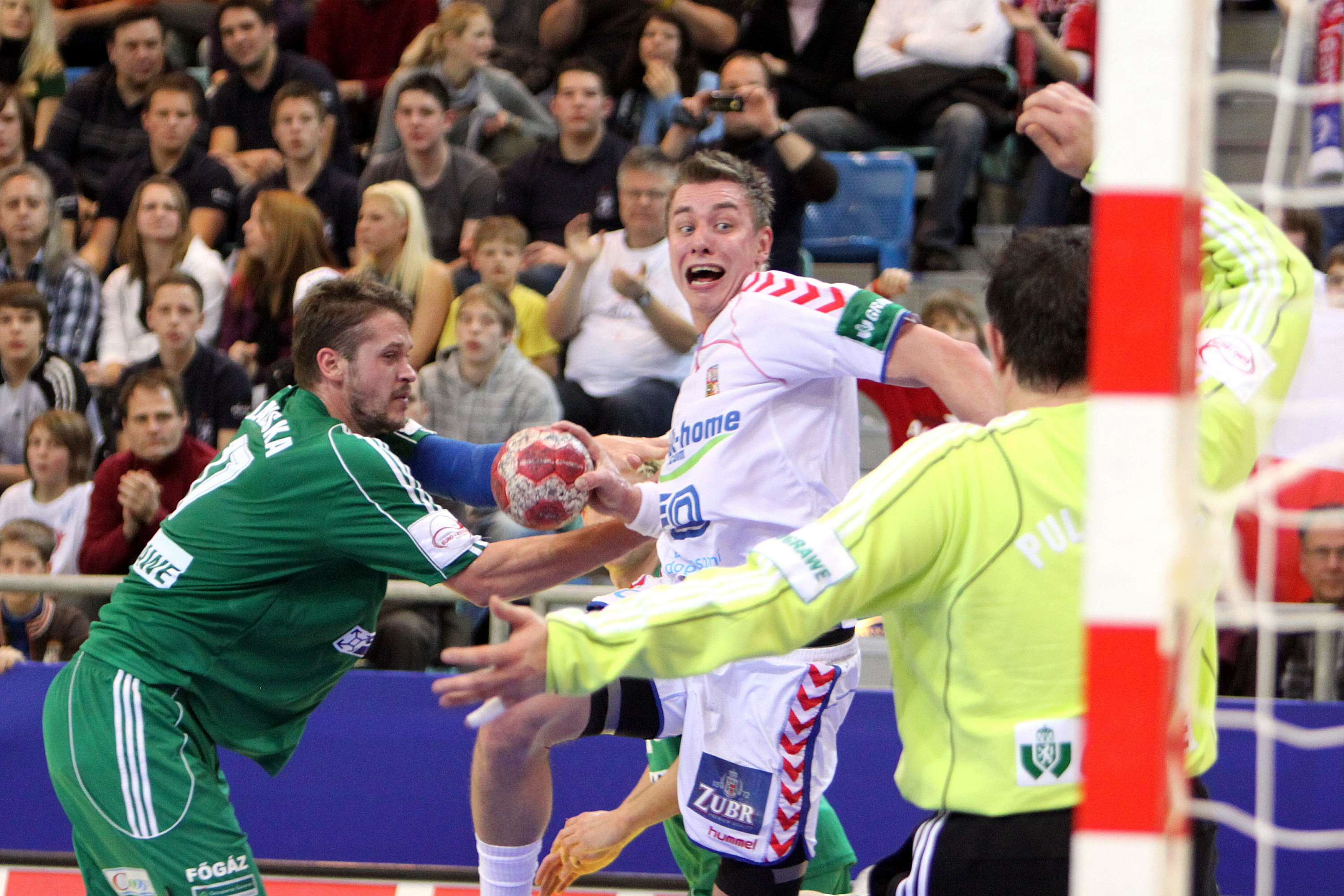 2010 European Men's Handball Championship Group D: Hungary vs Czech Republic 26:33 — Filip Jícha (Czech Republic national handball team) scores one of his 14 goals against the Hungary national handball team, Balázs Laluska is to late and Goalkeeper Nenad Puljezević without a chance